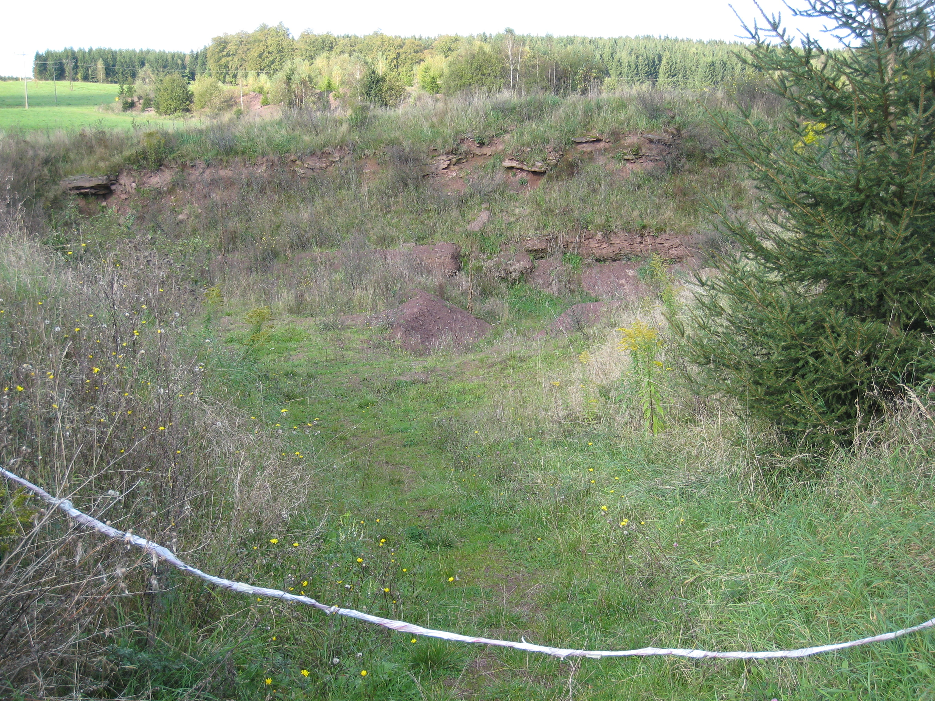 Saurier-Erlebnispfad (Georgenthal) 8